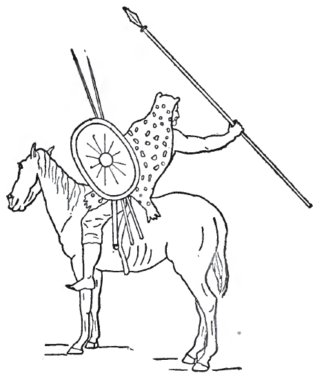 Numidian horseman in the army of Hannibal, as printed in Theodore Ayrault Dodge's A HISTORY OF THE ART OF WAR AMONG THE CARTHAGINIANS AND ROMANS DOWN TO THE BATTLE OF PYDNA, 168 B. C., WITH A DETAILED ACCOUNT OF THE SECOND PUNIC WAR Houghton Mifflin Company, Boston & New York (1891). Hand scanned.